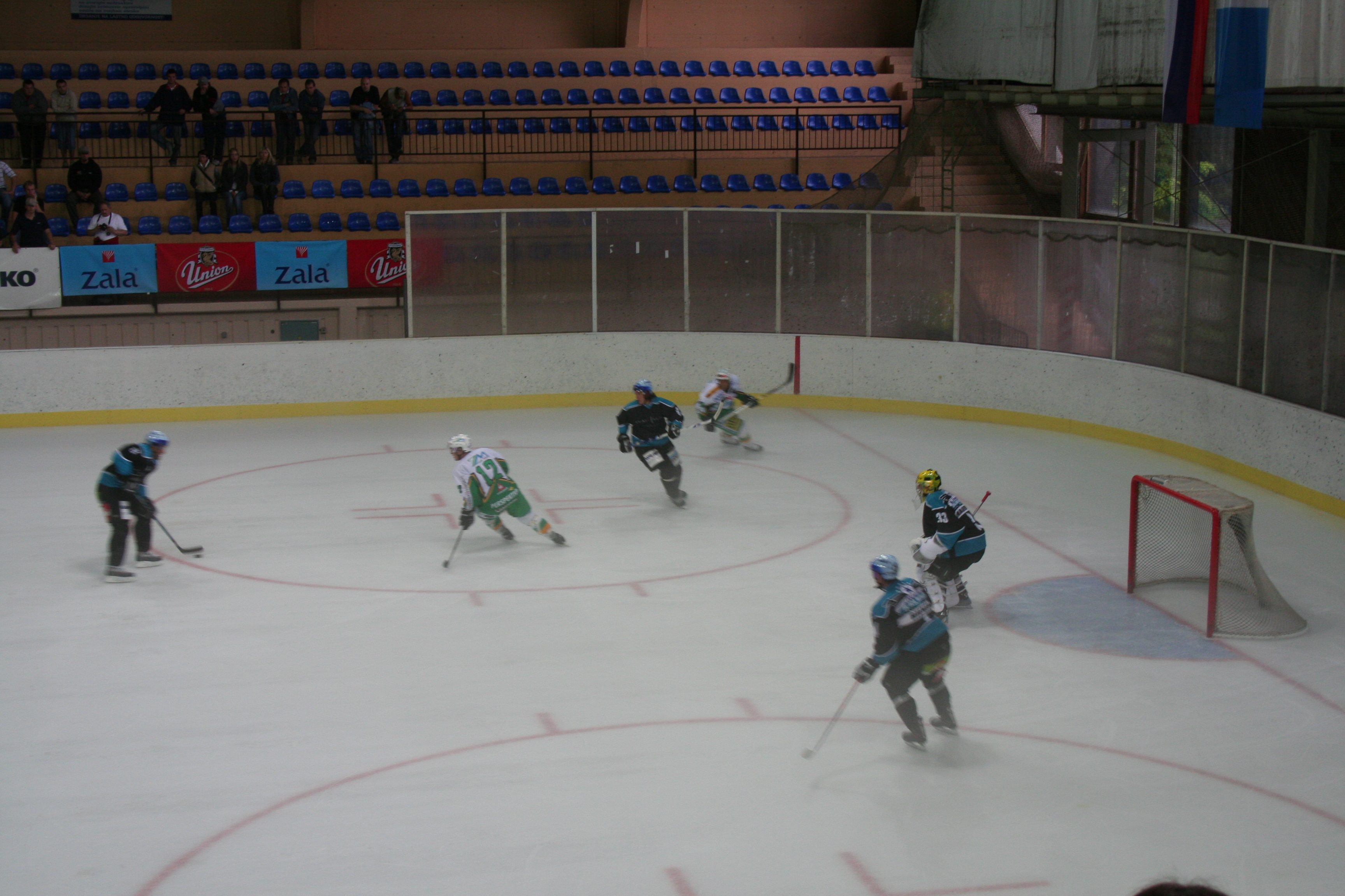 HDD Olimpija - EHC Linz, friendly match in 2007